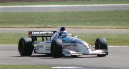 Ukyo Katayama driving for Tyrrell Racing at the 1995 British Grand Prix.